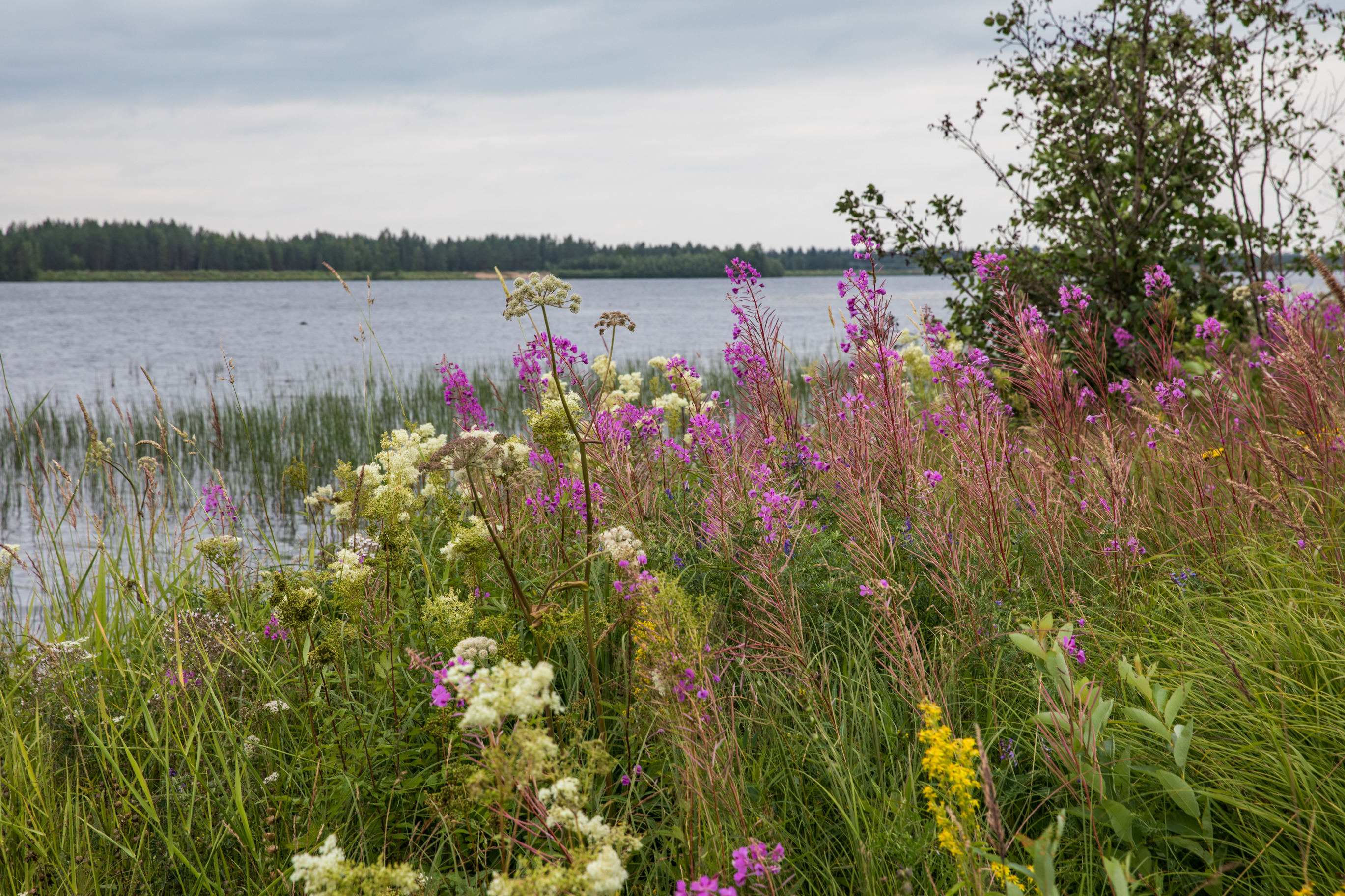 Iijoki at Kierikki Stone Age Centre